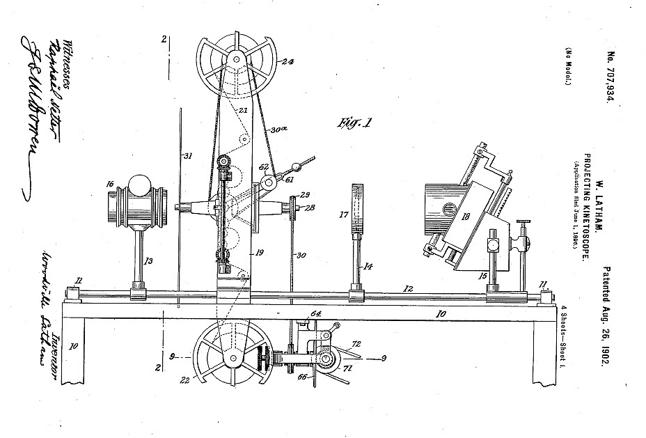 Dwg. from US Pat No 707,934, film projector involved in Motion Pic. Pat. case. PD because US pat.